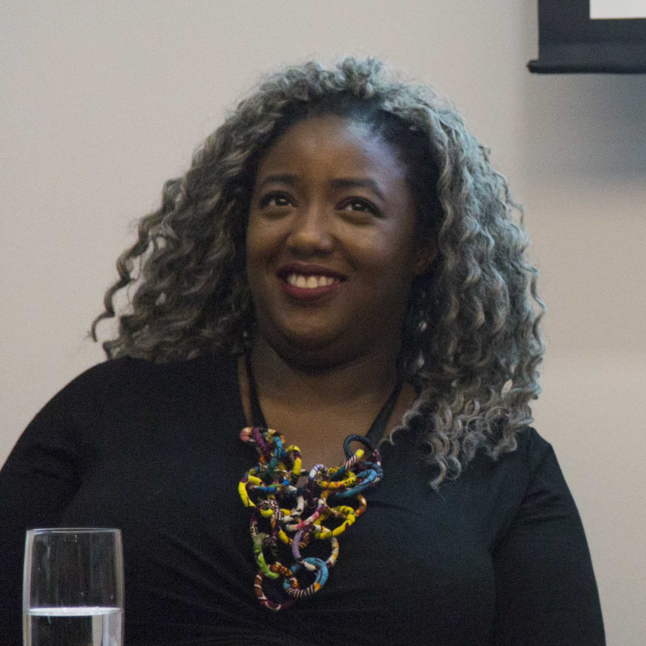 "Opportunities and Challenges: Navigating the new world of data" panel at Allen & Ovary in London. Discussing the findings of Data